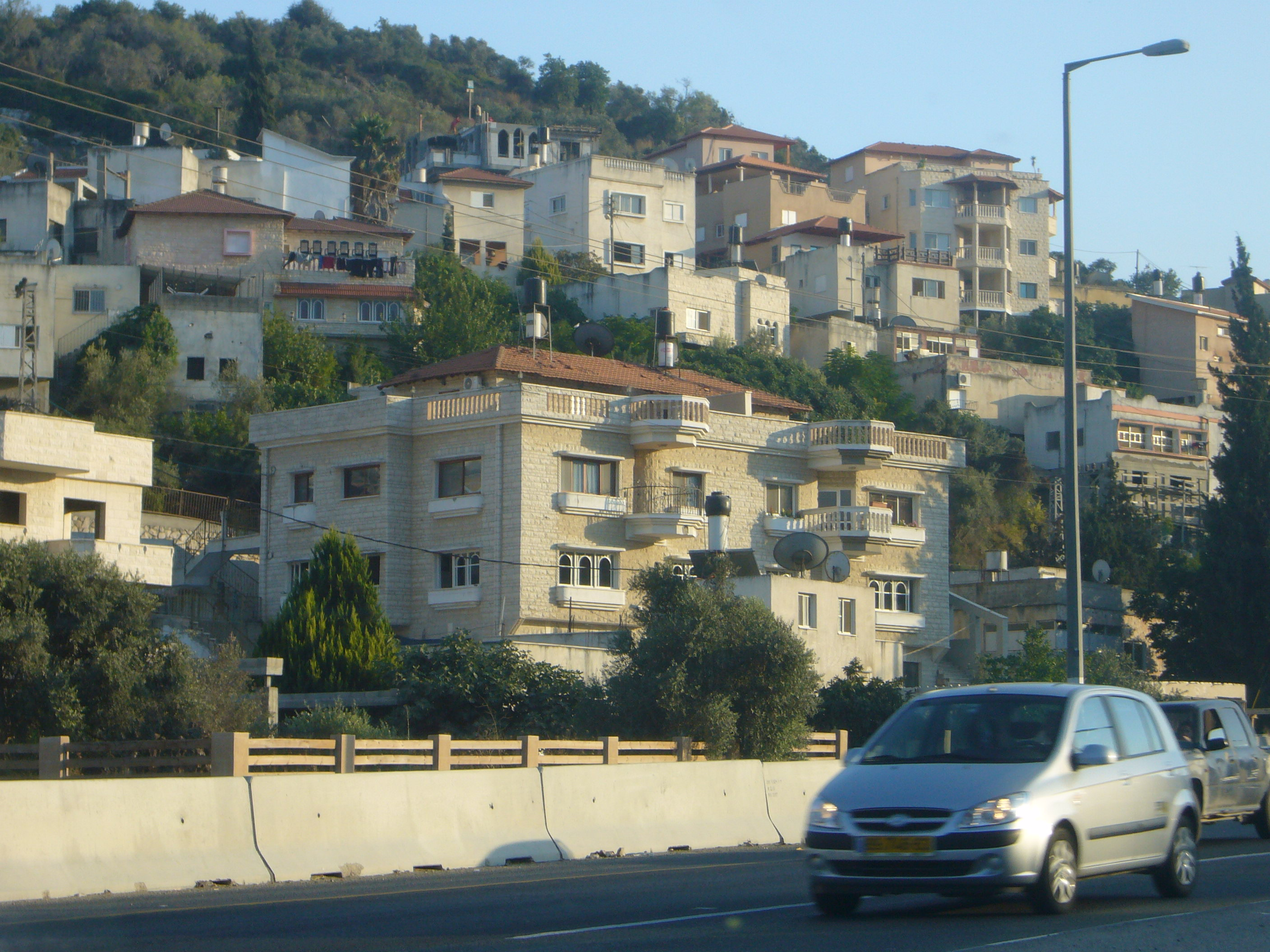 The village of Musmus along the highway